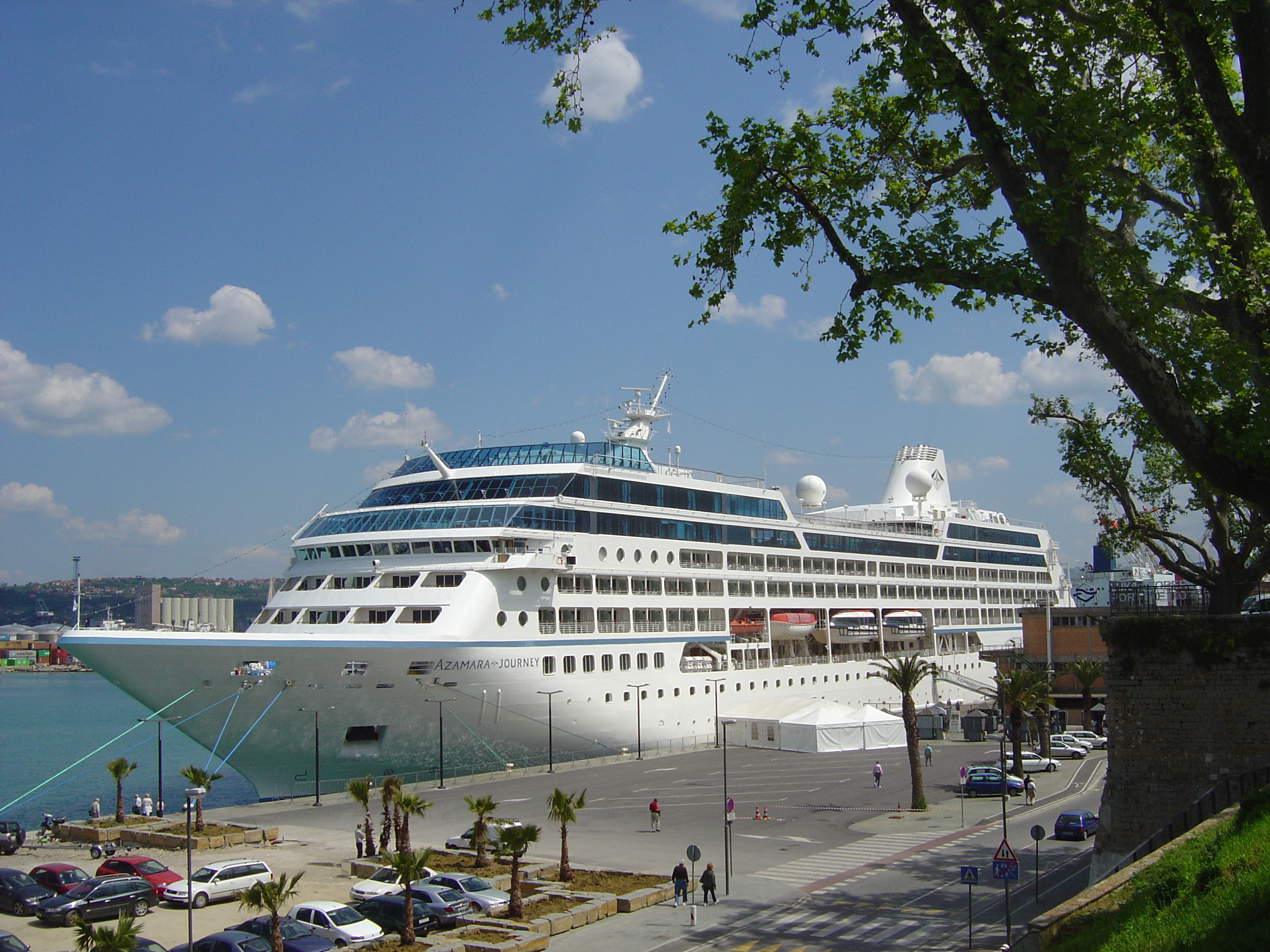 Azamara Journey at noon in the Port of Koper IMO Number: 9200940 MMSI Number: 256204000 Callsign: 9HOB8 Length: 180 m Beam: 30 m